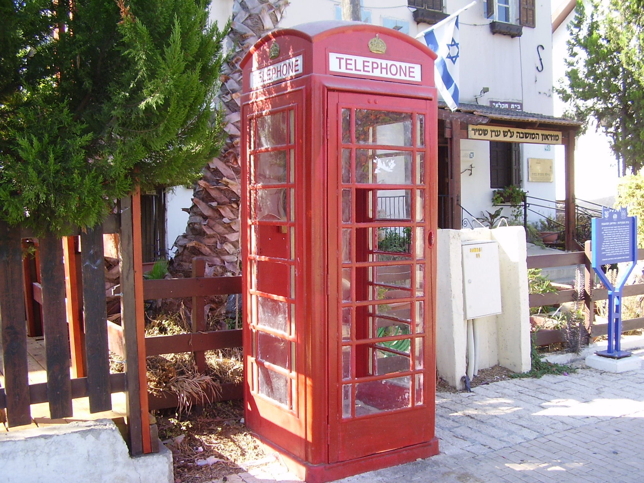 telephone box of british mandate time, in mazkeret batya תא טלפון מימי המנדט במזכרת בתיה